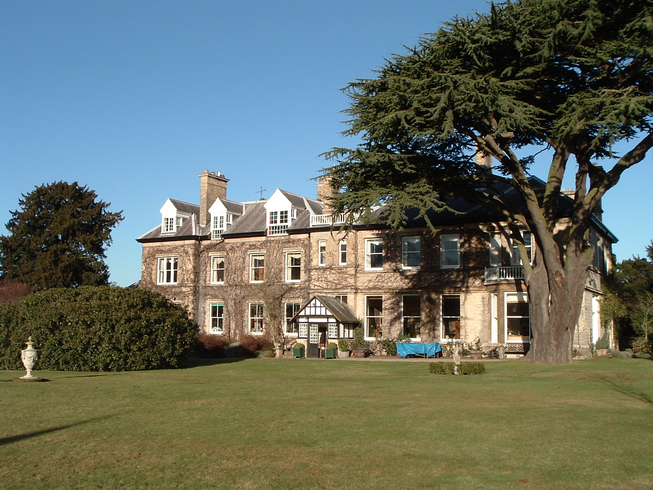 Barnby Moor Hall, Nottinghamshire, England